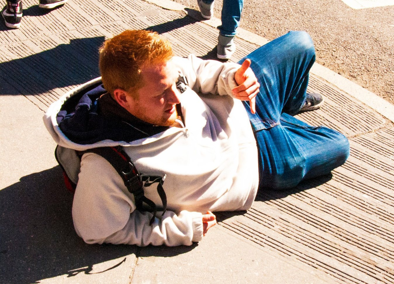 The effect of increased intensity in red hair when exposed to sunlight.